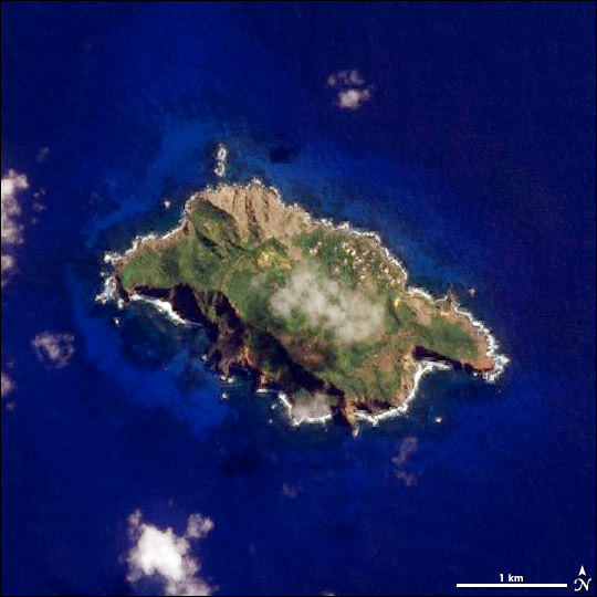 NASA Satellite Image of Pitcairn Island in the Pacific Ocean